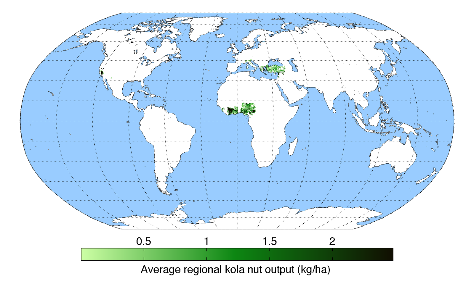 Map of kola nut production (average percentage of land used for its production times average yield in each grid cell) across the world compiled by the University of Minnesota Institute on the Environment with data from: Monfreda, C., N. Ramankutty, and J.A. Foley. 2008. Farming the planet: 2. Geographic distribution of crop areas, yields, physiological types, and net primary production in the year 2000. Global Biogeochemical Cycles 22: GB1022